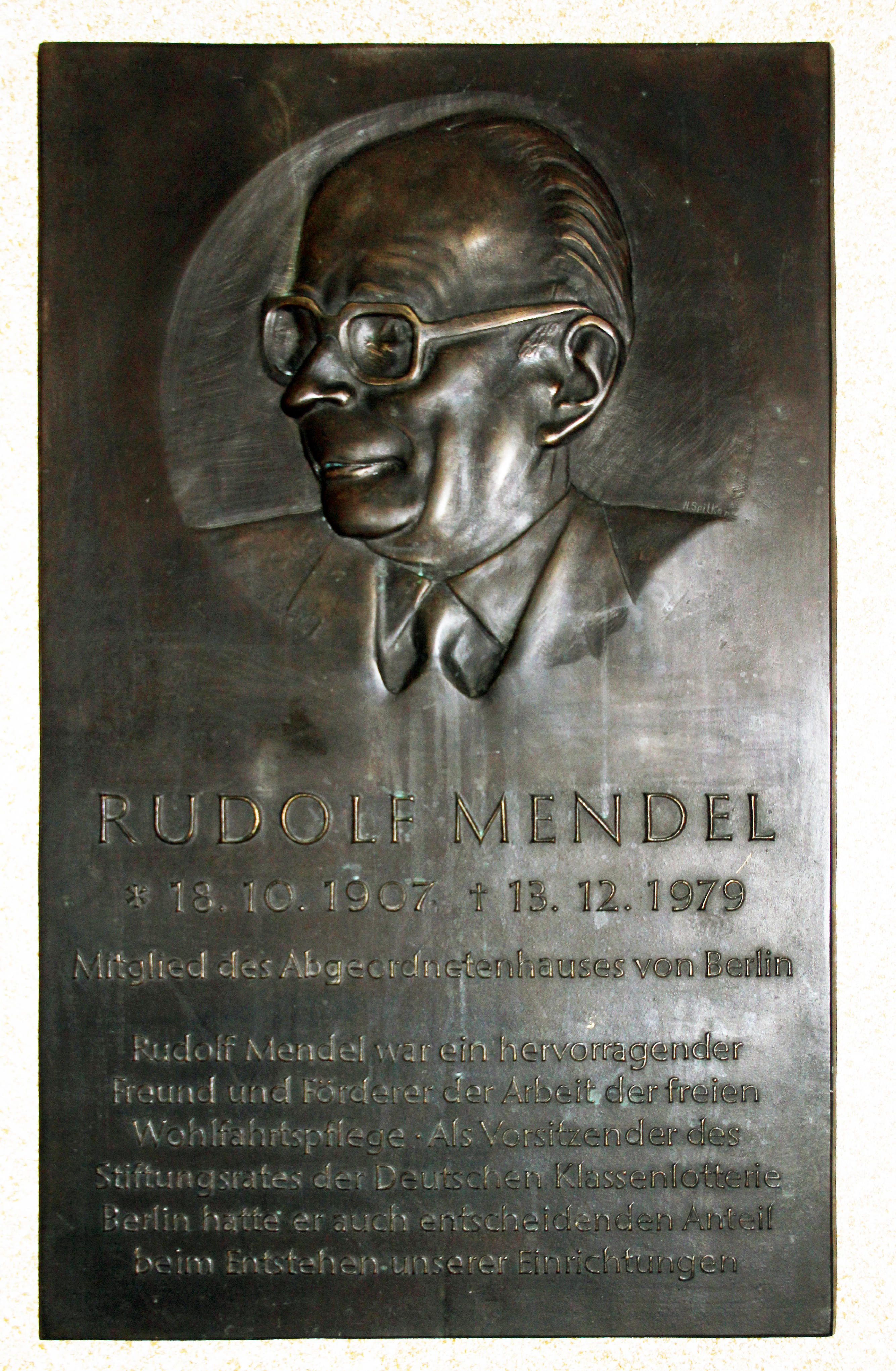 Memorial plaque, Rudolf Mendel, Bismarckallee 23, Berlin-Grunewald, Germany